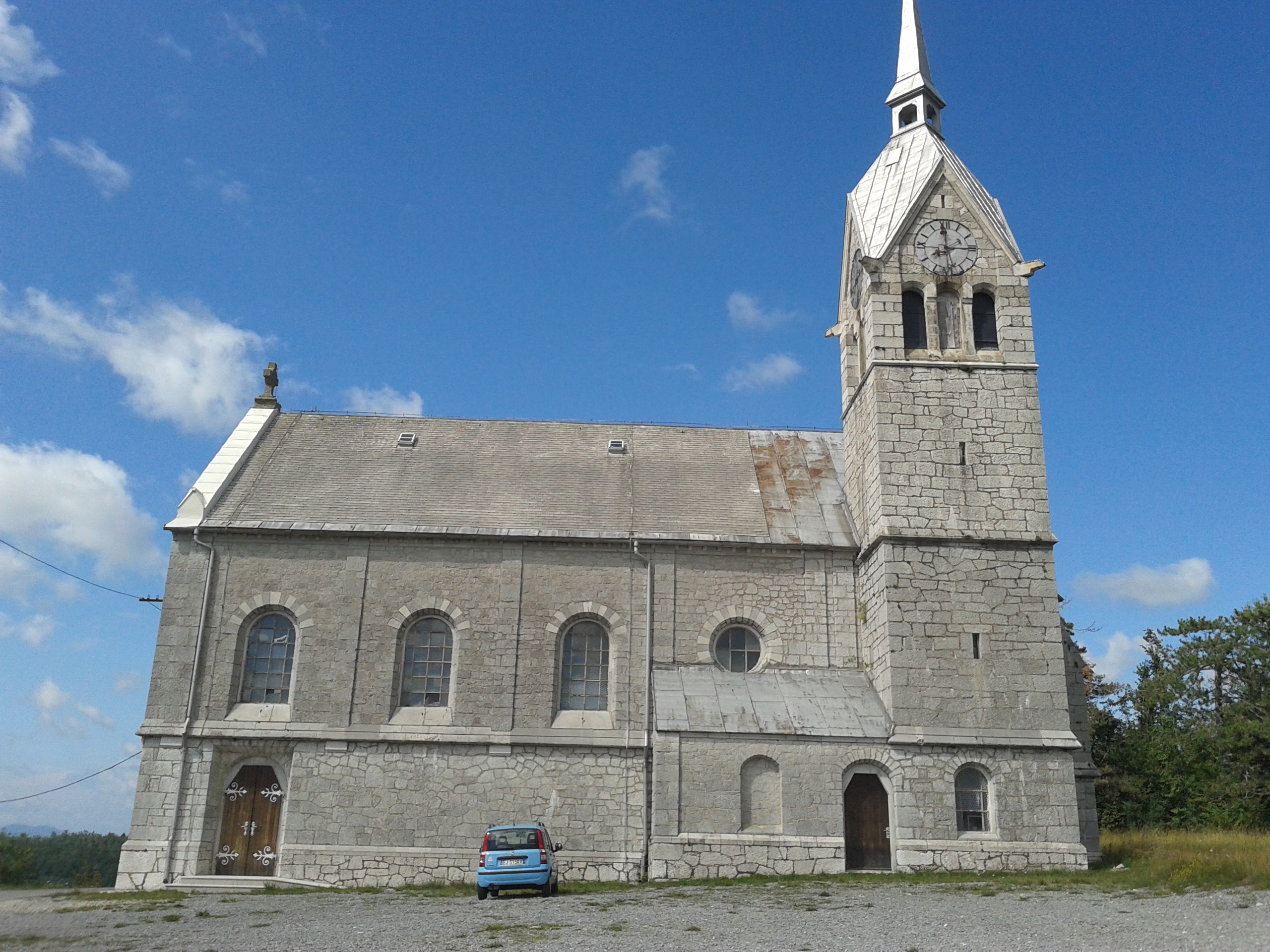 Postojna, in Slovenia.